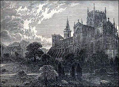 Dunfermline Abbey and Church